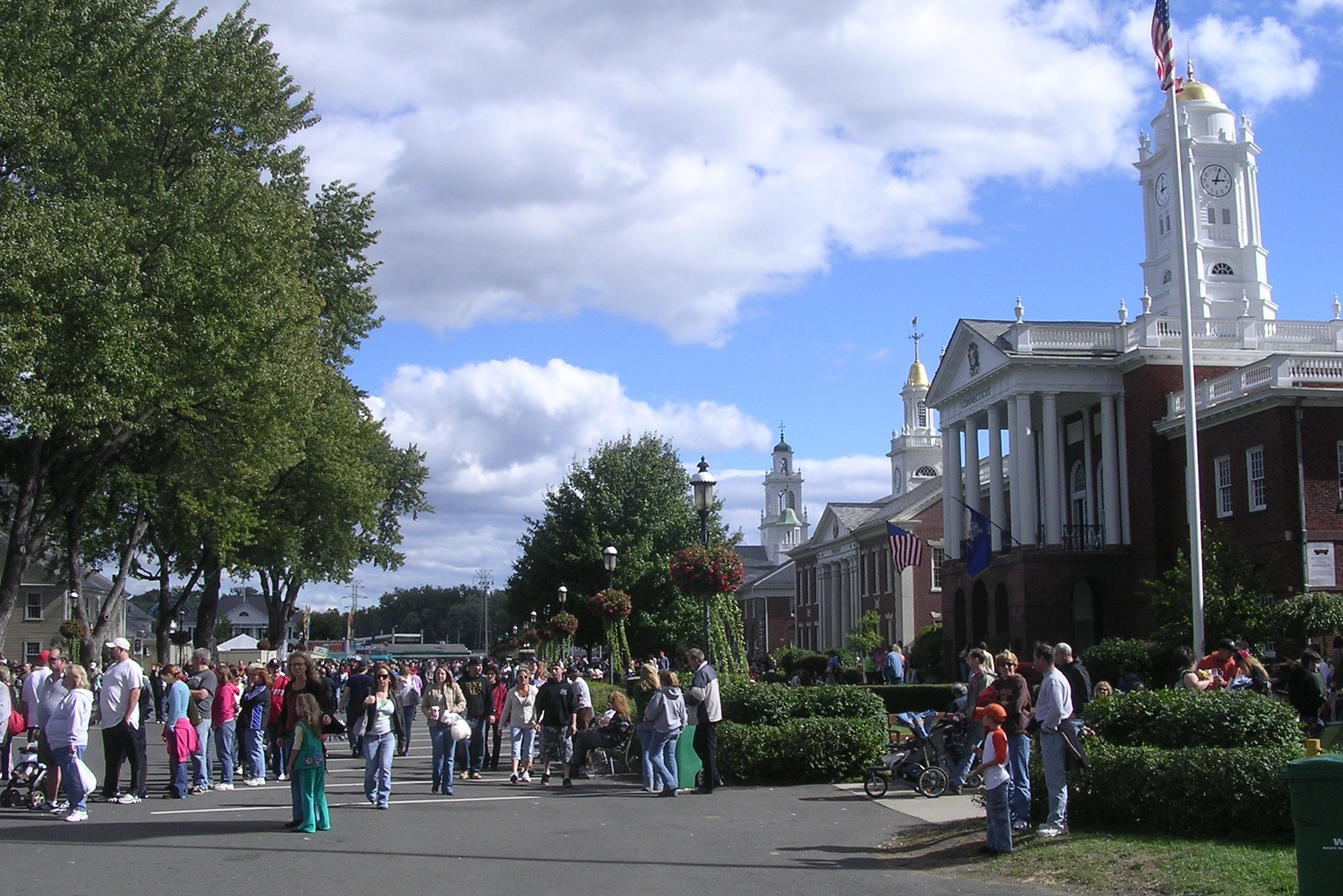 Avenue of States, The Big E, West Springfield Massachusetts